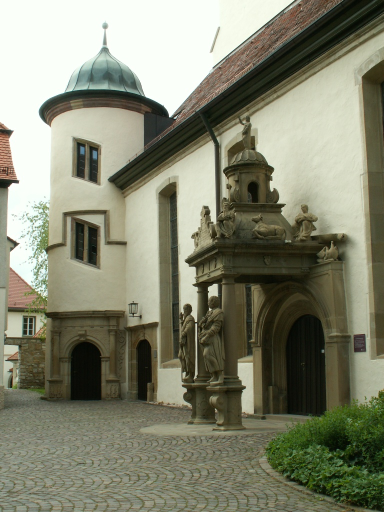 The main portal of the Laurentius church in Hemmingen in Württemberg, Germany